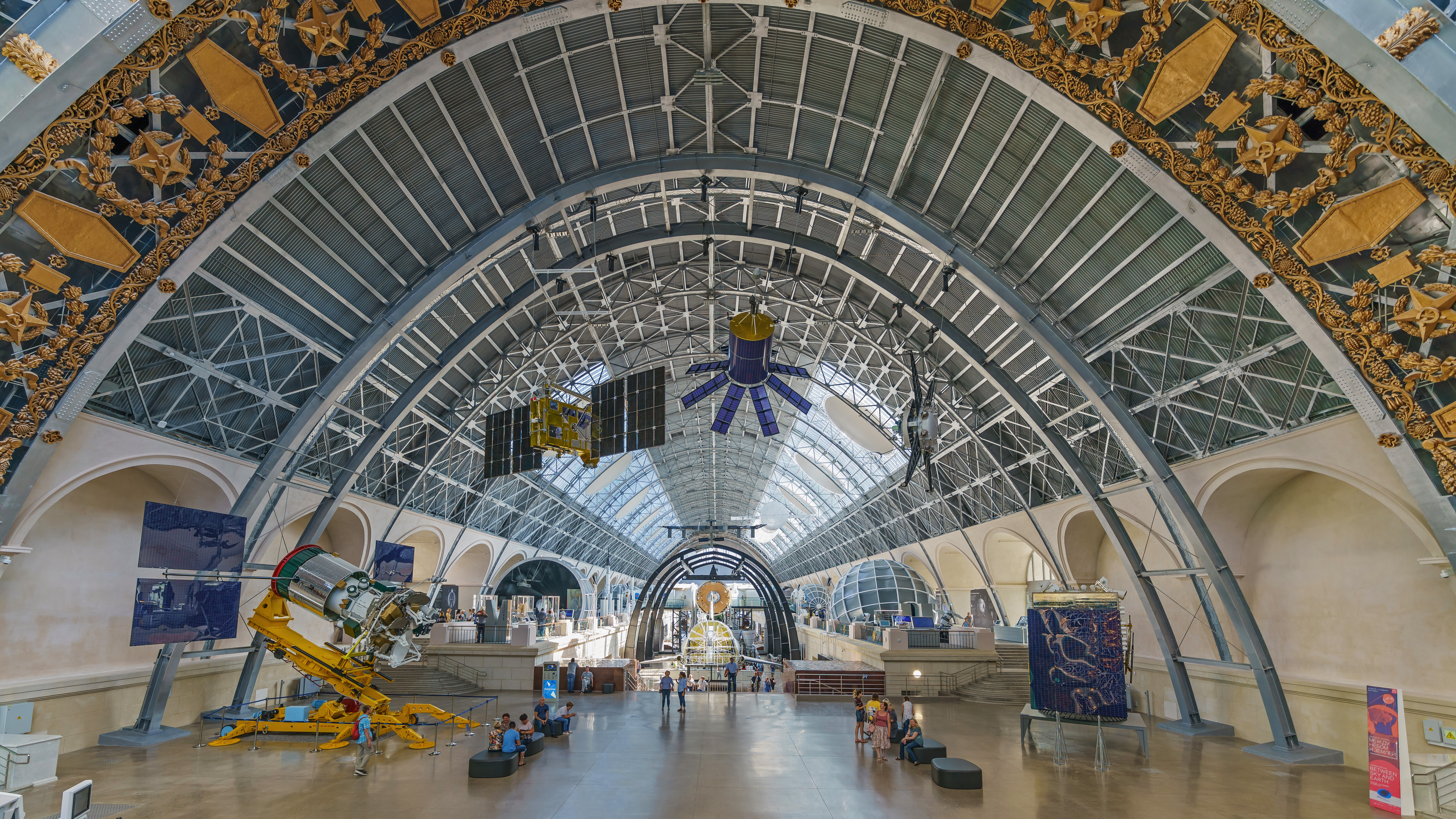 Interior of Space Pavilion in VDNKh Park (former Agricultural Exhibition Ground) in Moscow, Russia.